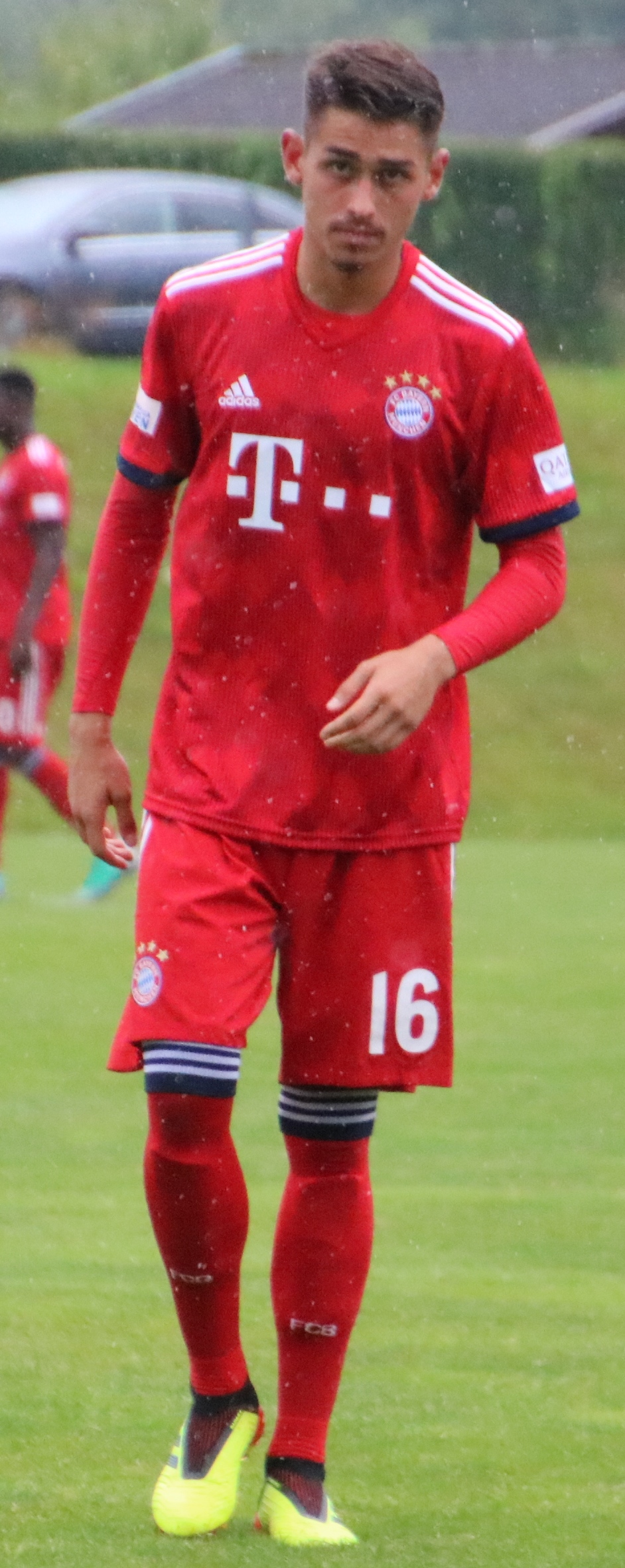 preseasonnmatch 2018/19